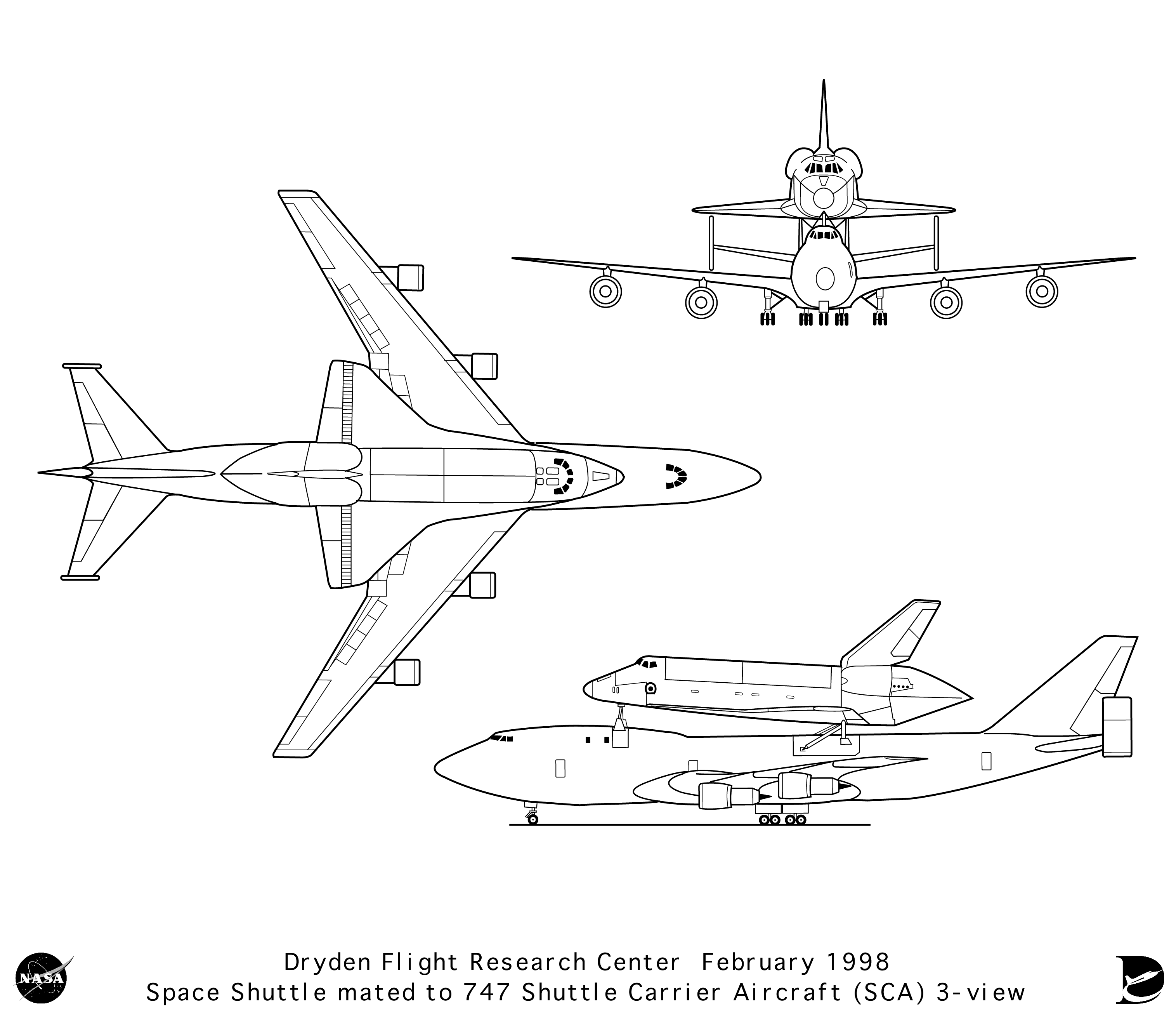 3-view of NASA's Boeing 747 Shuttle Carrier Aircraft. NASA uses two modified Boeing 747 jetliners, originally manufactured for commercial use, as Space Shuttle Carrier Aircraft (SCA). One is a 747-100 model, while the other is designated a 747-100SR (short range). The two aircraft are identical in appearance and in their performance as Shuttle Carrier Aircraft.